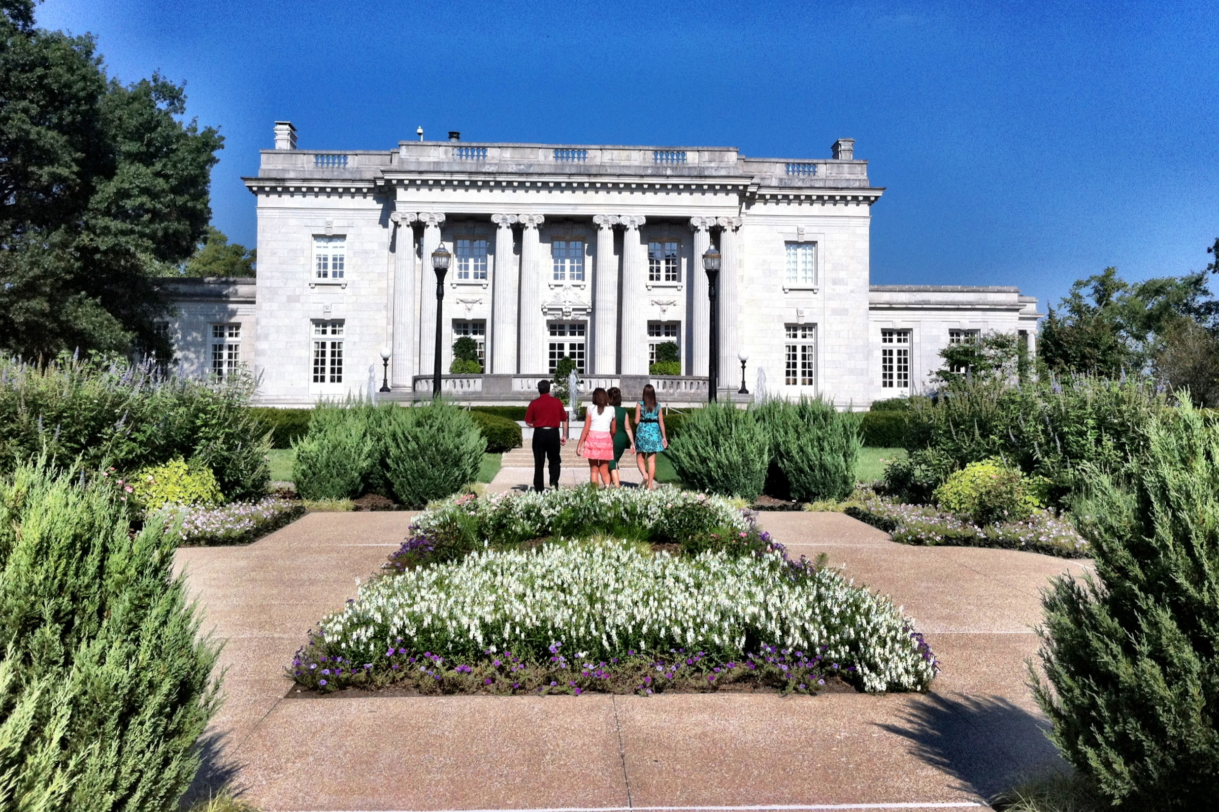 Kentucky Governor's Mansion. Photo taken on 7-31-2011